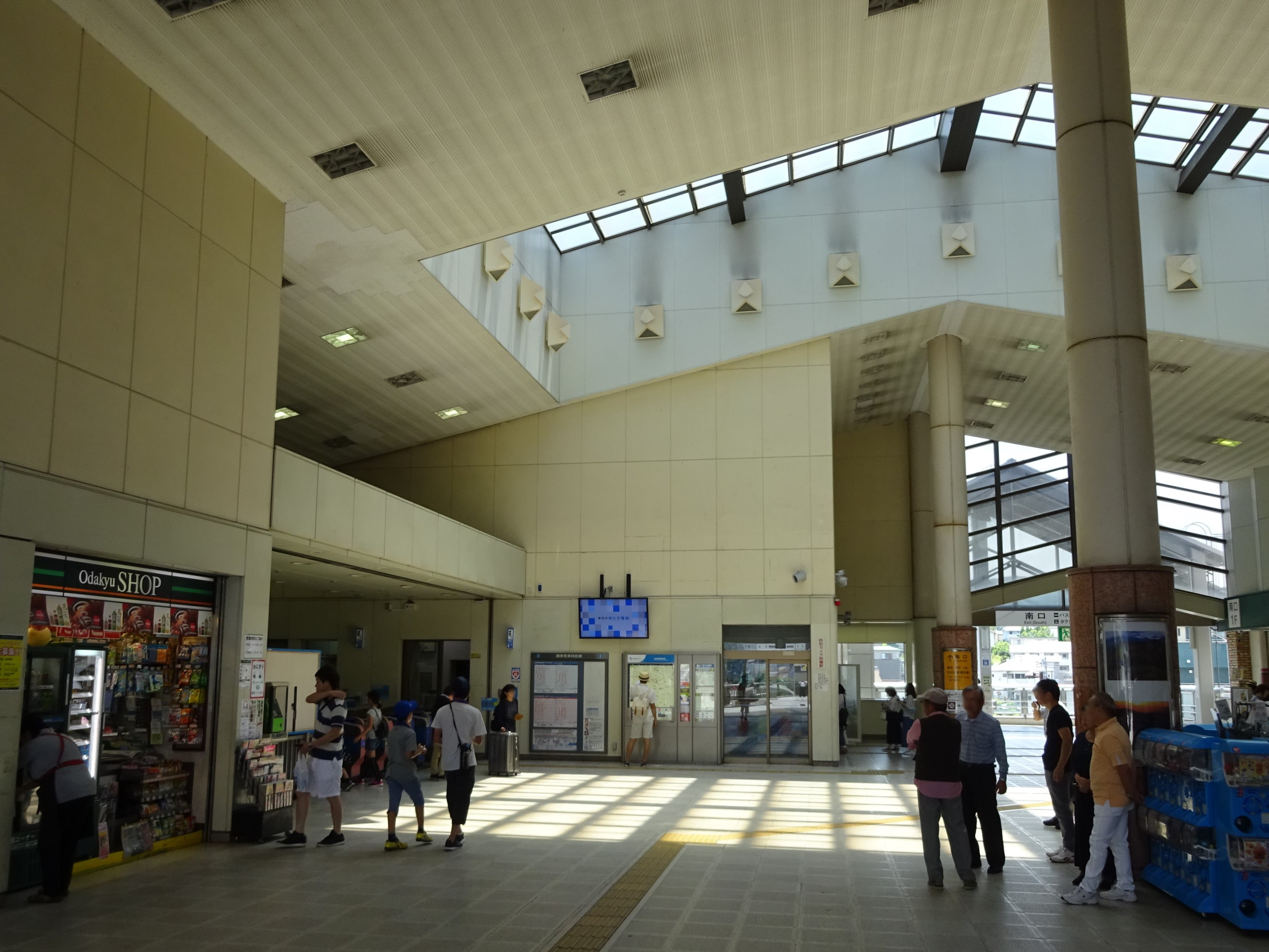 Concourse of Shibusawa Station